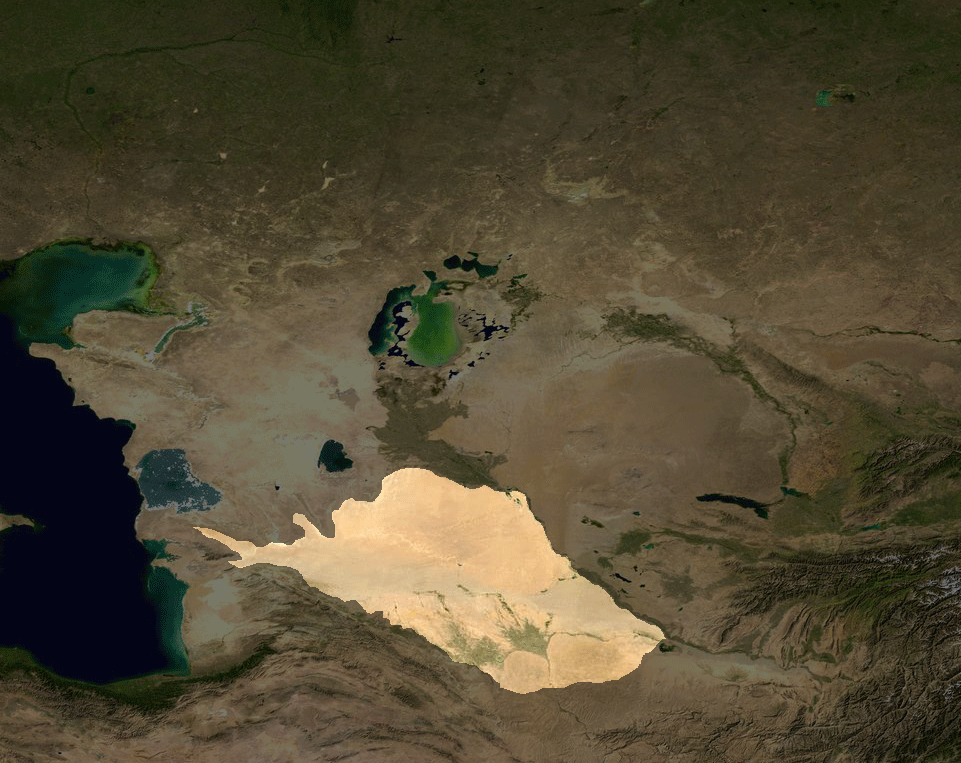 region of Karakum Desert.